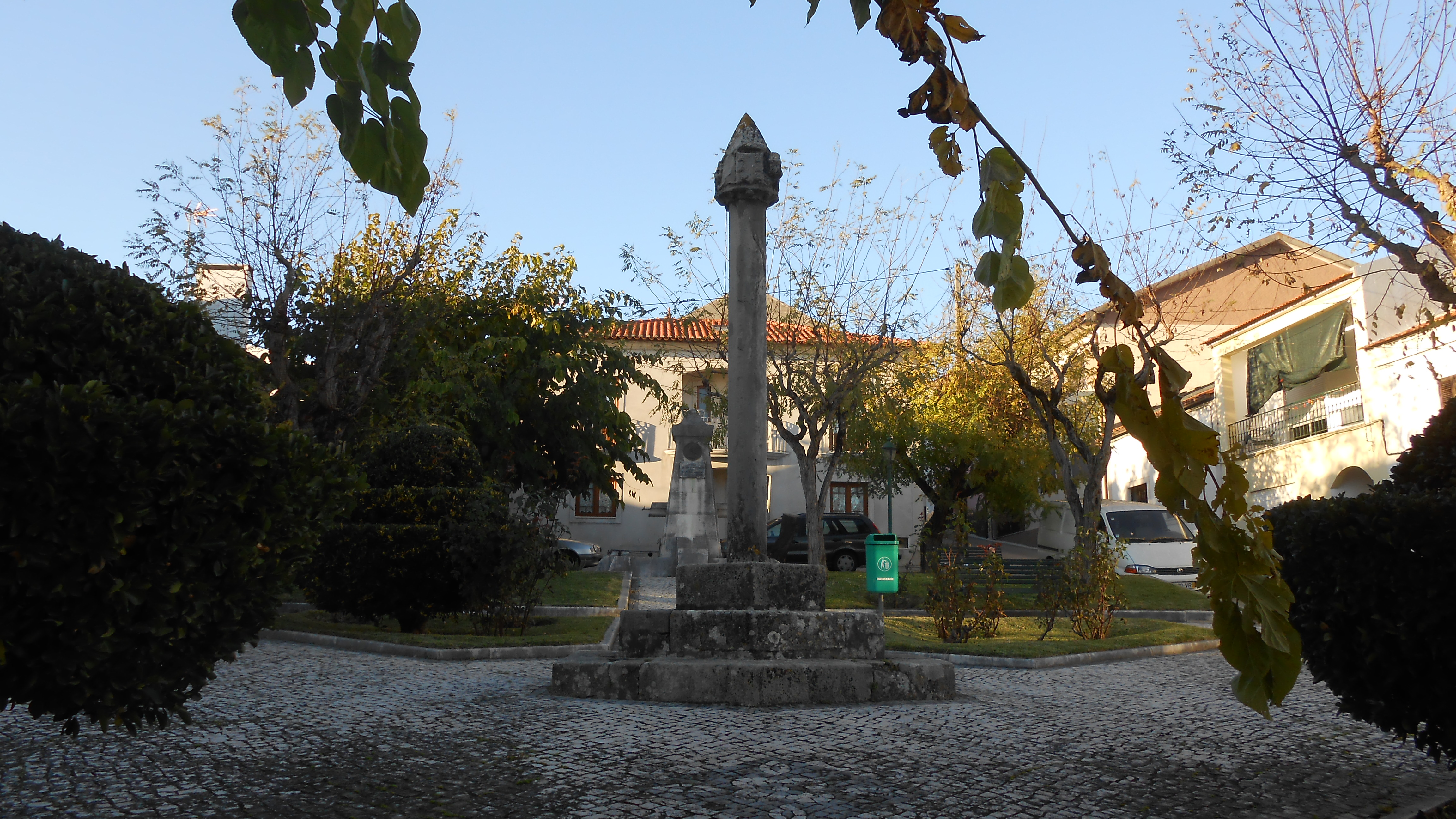 The pillory in Vila Nova de Anços, erected in 1515.